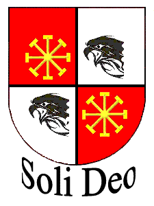 Coat of Arms to Michel de Nostredame a French apothecary and reputed seer who published collections of prophecies that have since become famous worldwide.